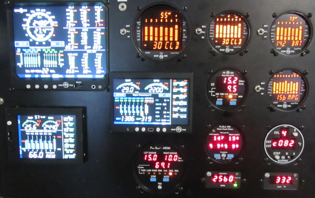 JPI avionics